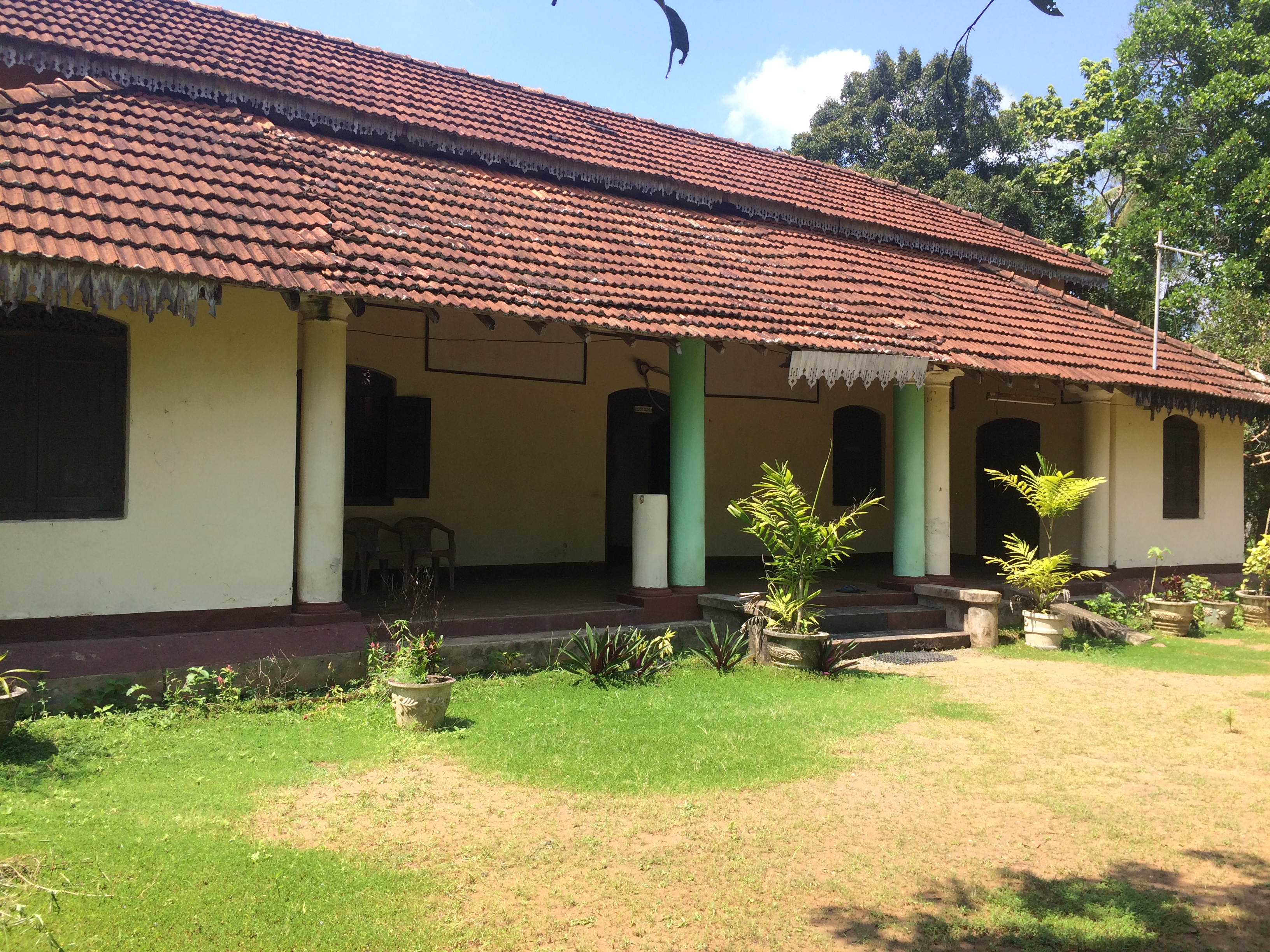 Katupitiya Walawwa, Divulgaspitiya